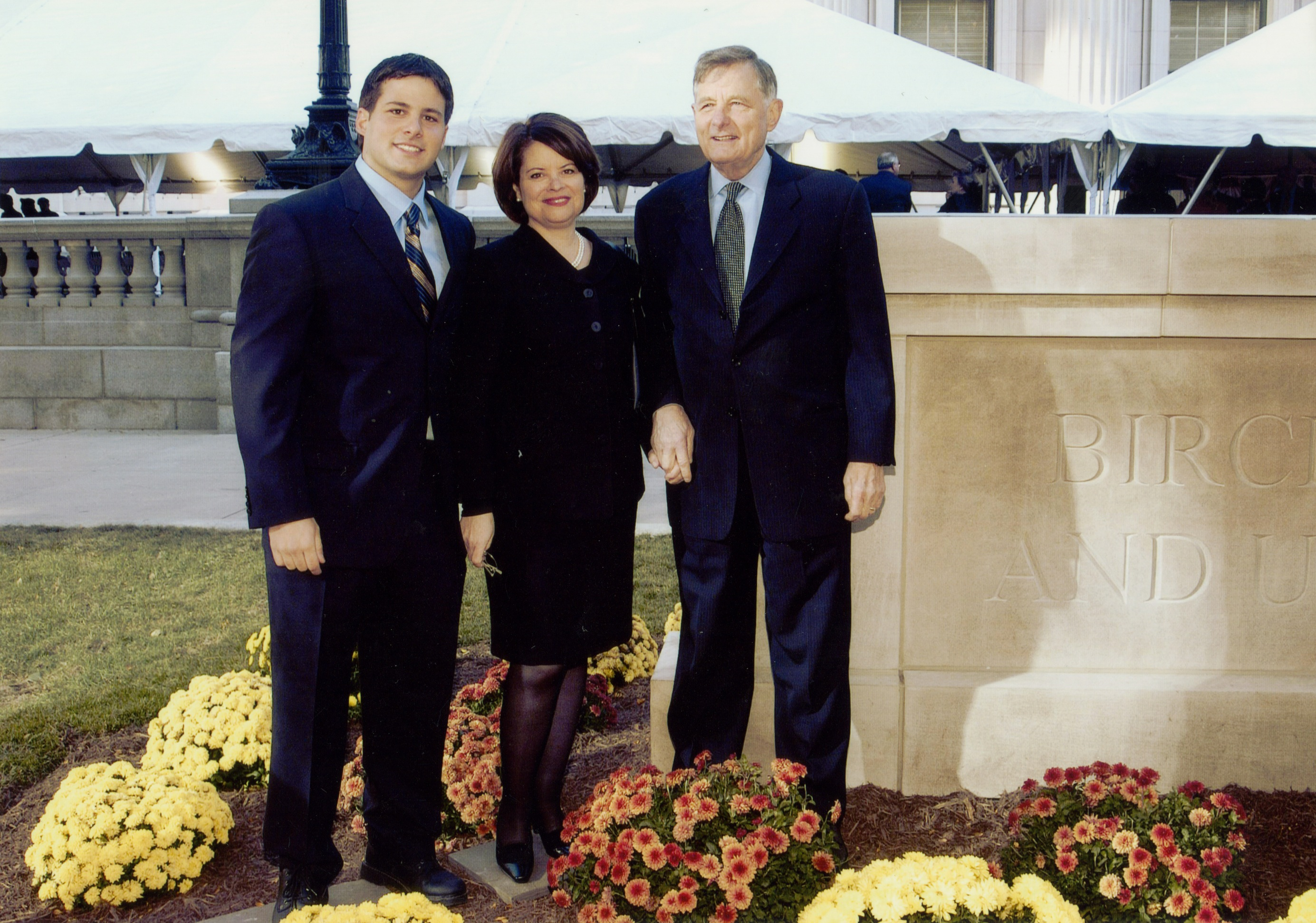 Former U.S. Senator Birch Bayh (D-IN), right, with his son Christopher and wife Katherine, at the dedication of the Birch Bayh Federal Building and United States Courthouse in Indianapolis, 2003.